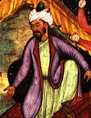 Mughal Emperor Babur